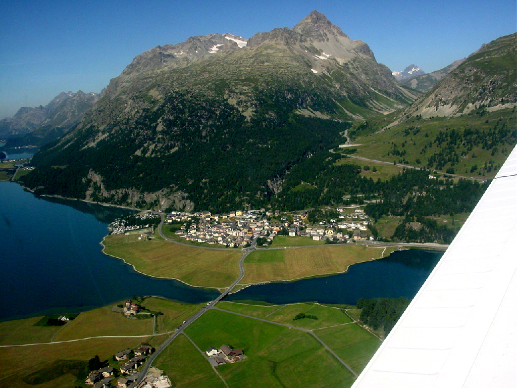 Silvaplana and Lake Silvaplana and Lej da Champfèr, July 2003